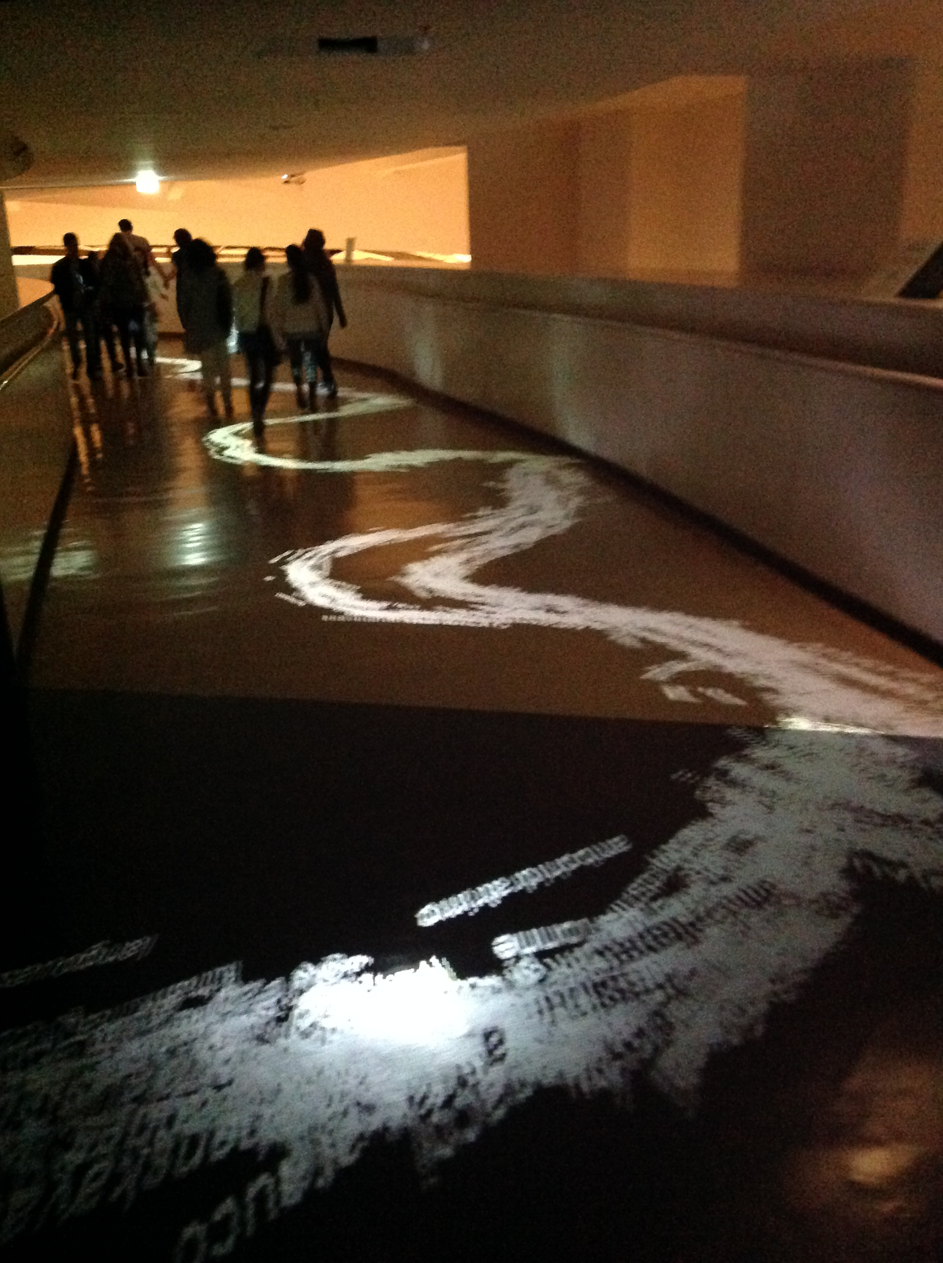 The interior ramp, or "river", of the Musee du Quai Branly, with a moving stream of words